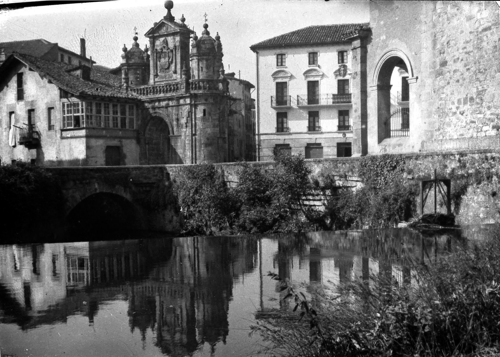 Santa Ana church (Durango, Biscay, Basque Country) in the early 20th century